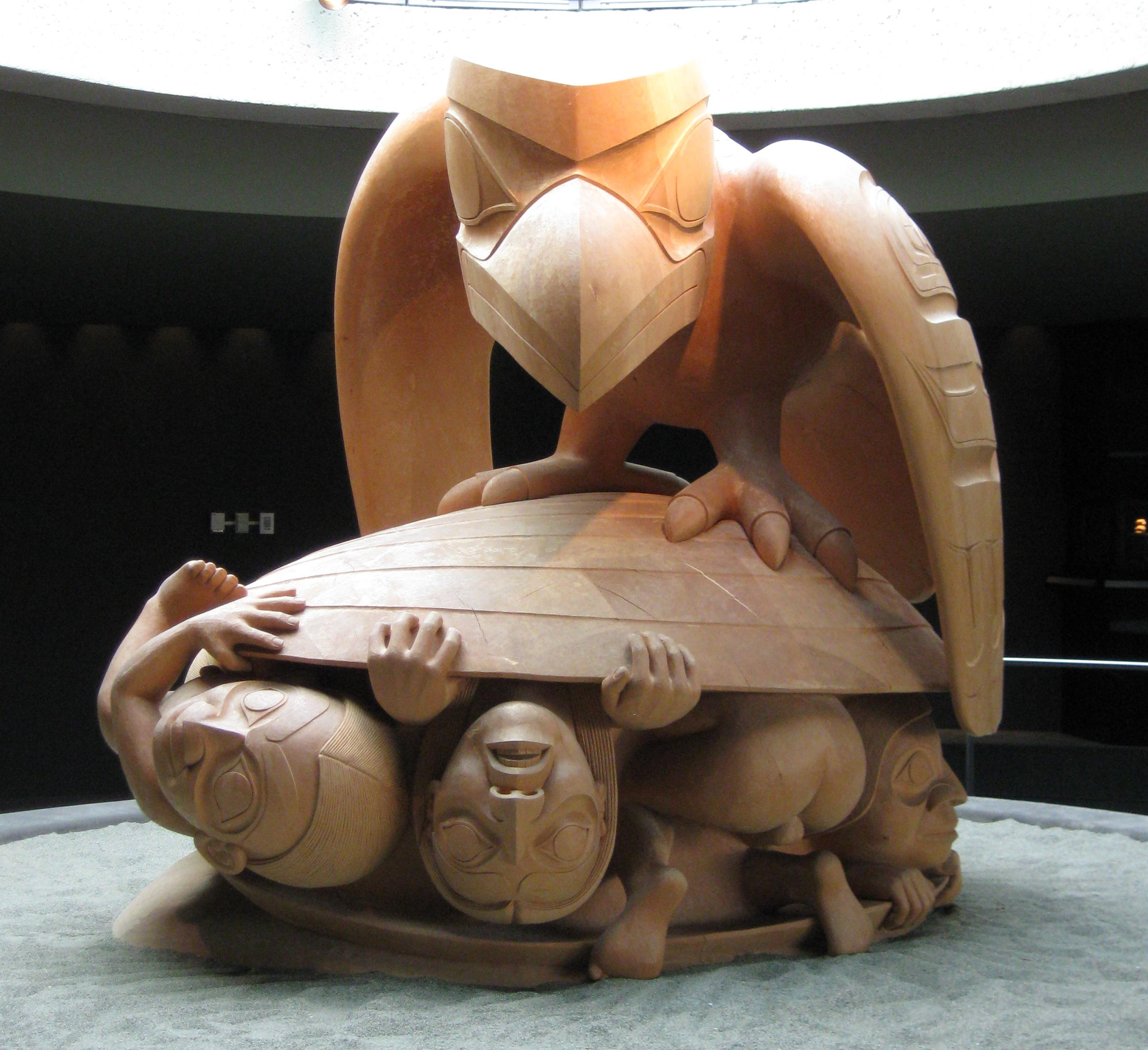 This is Bill Reid's famous and massive "The Raven and the first Men" sculpture which is situated in a commanding position within UBC's Museum of Anthropology building in Vancouver, Canada. It was first unveiled in 1980. The original 1980 museum plaque states that this yellow cedar sculpture represents the Haida legend of the raven discovering men in a clamshell, on a beach at Rose Spit, in the Queen Charlotte Islands (or 'Haida Gwaii' today) of British Columbia, Canada.